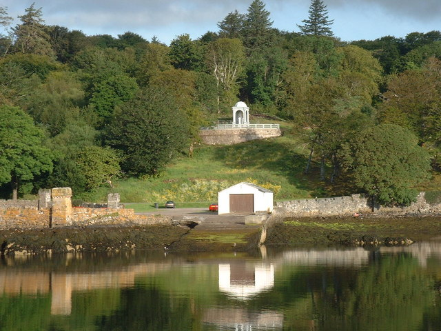 Lady Matheson Memorial This Picture was taken of Cuddy Point, which is in the Castle Grounds, Stornoway at 8.03 am from King Edward's Wharf Stornoway, it is also known as No 1 pier, the hut at the waters edge used to be a canoe shed, I don't know if it still is in use, and behind it is the Lady Matheson Memorial. To the right out of the shot is the Lewis Castle.